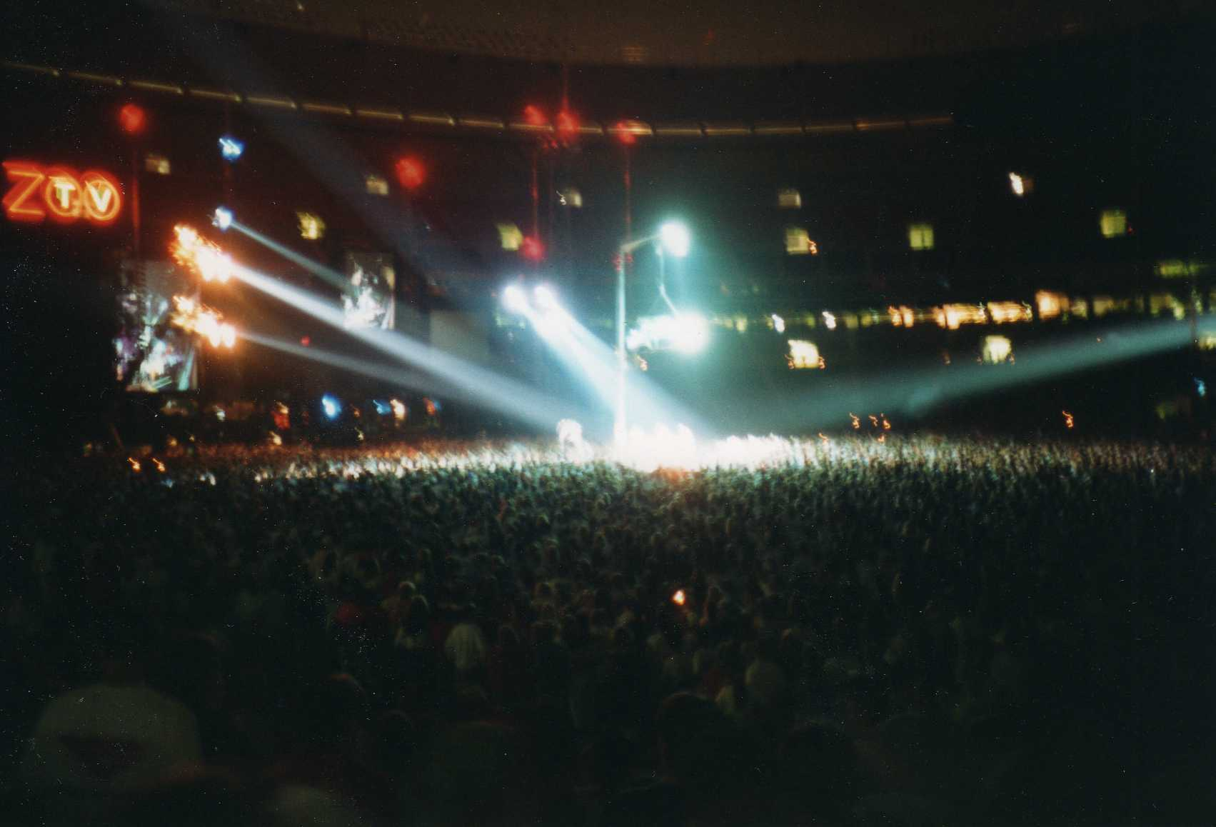 U2's Zoo TV Tour concert, Philadelphia Veterans Stadium, 3 September 1992. Shows band on the B-stage, in middle part of show. Taken by me.